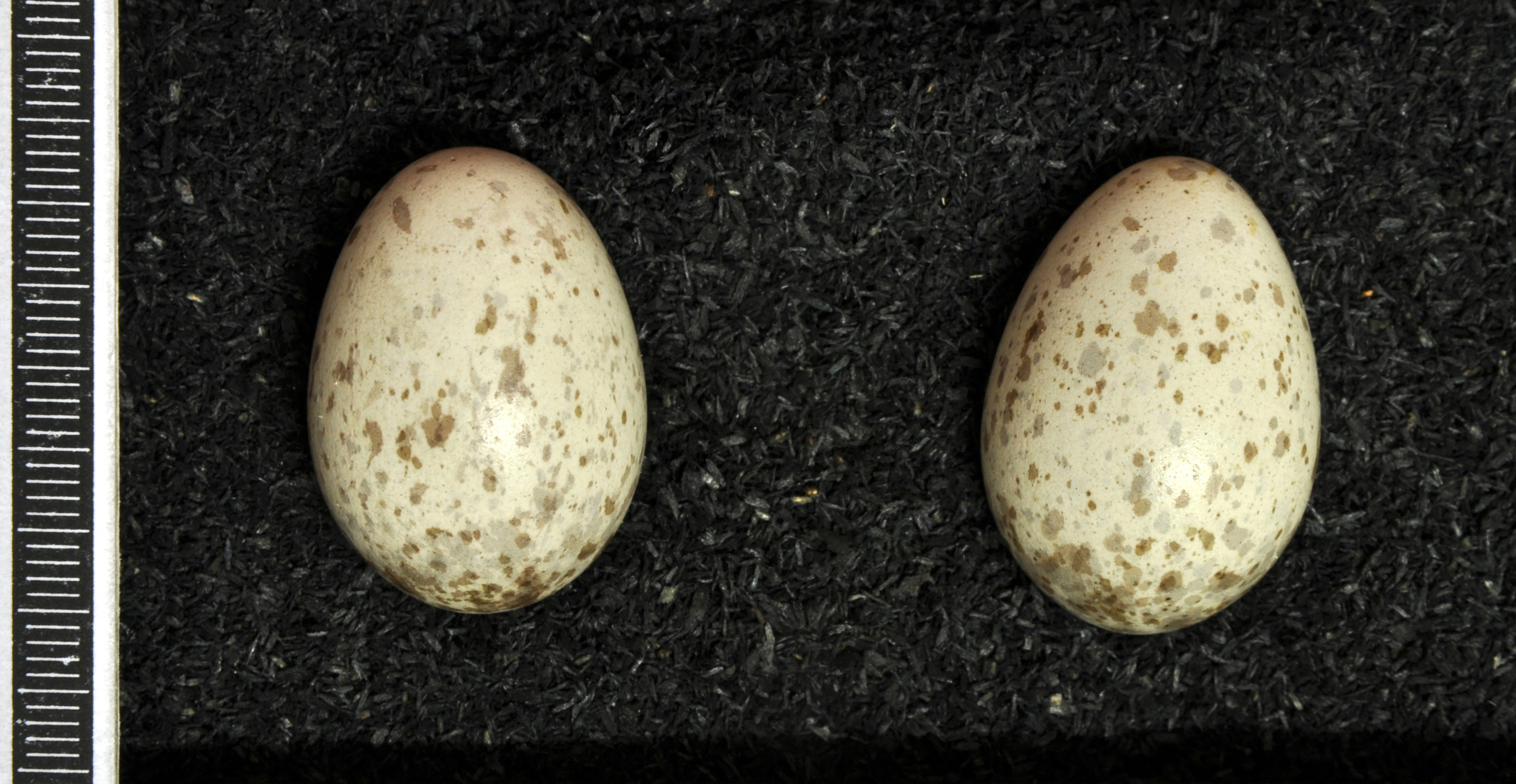 Siberian jay Perisoreus infaustus , egg, Coll. Museum Wiesbaden